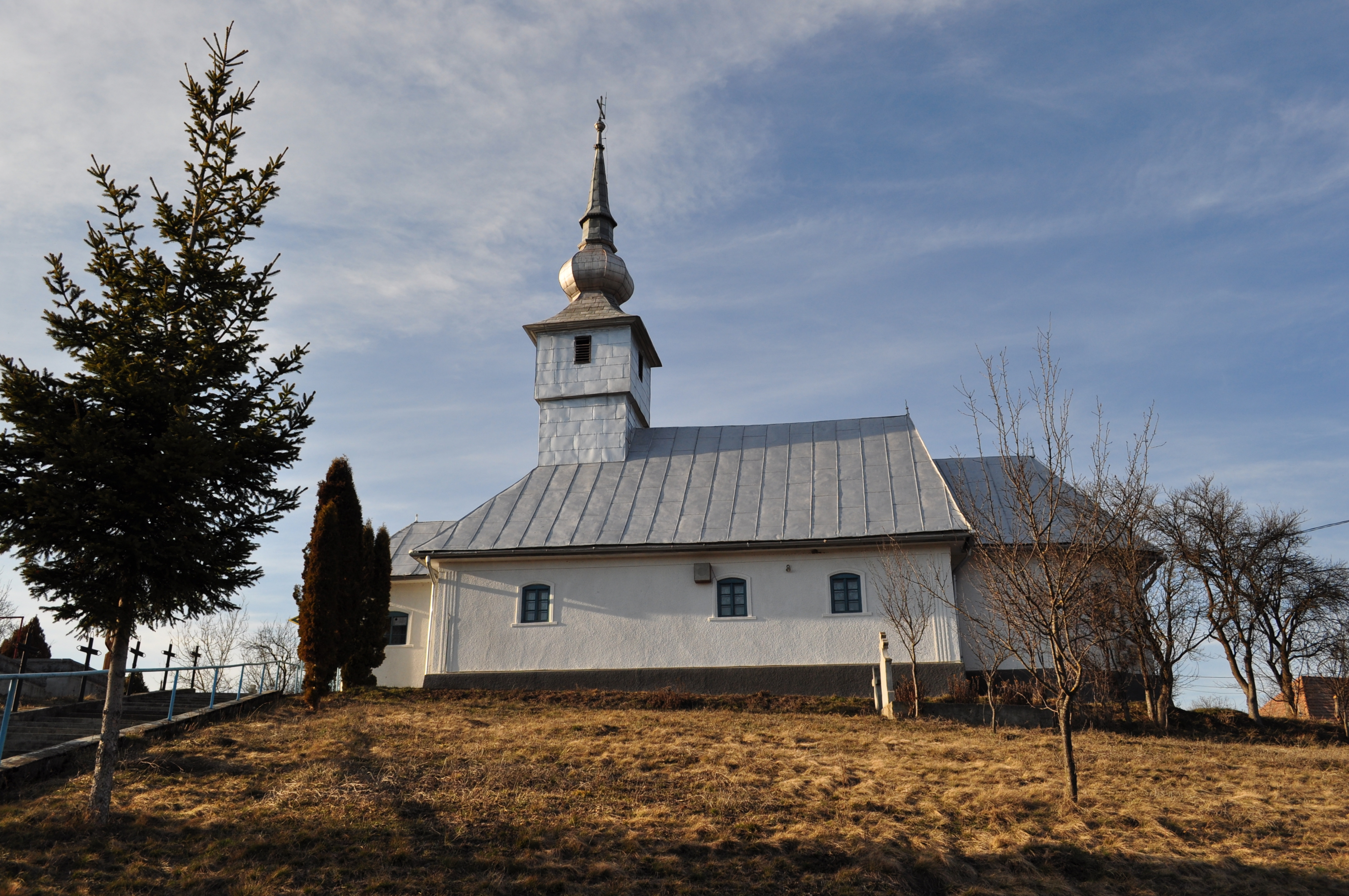 Filea de Jos, Cluj county, Romania